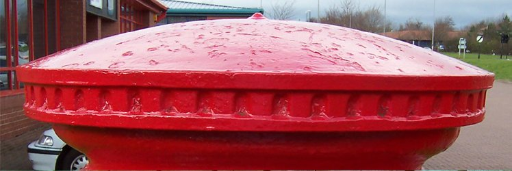 The cast iron cap of a pillar box. Halstead Essex 20/3/07 on Coolpix 885 by Kitmaster 10:12, 22 March 2007 (UTC)